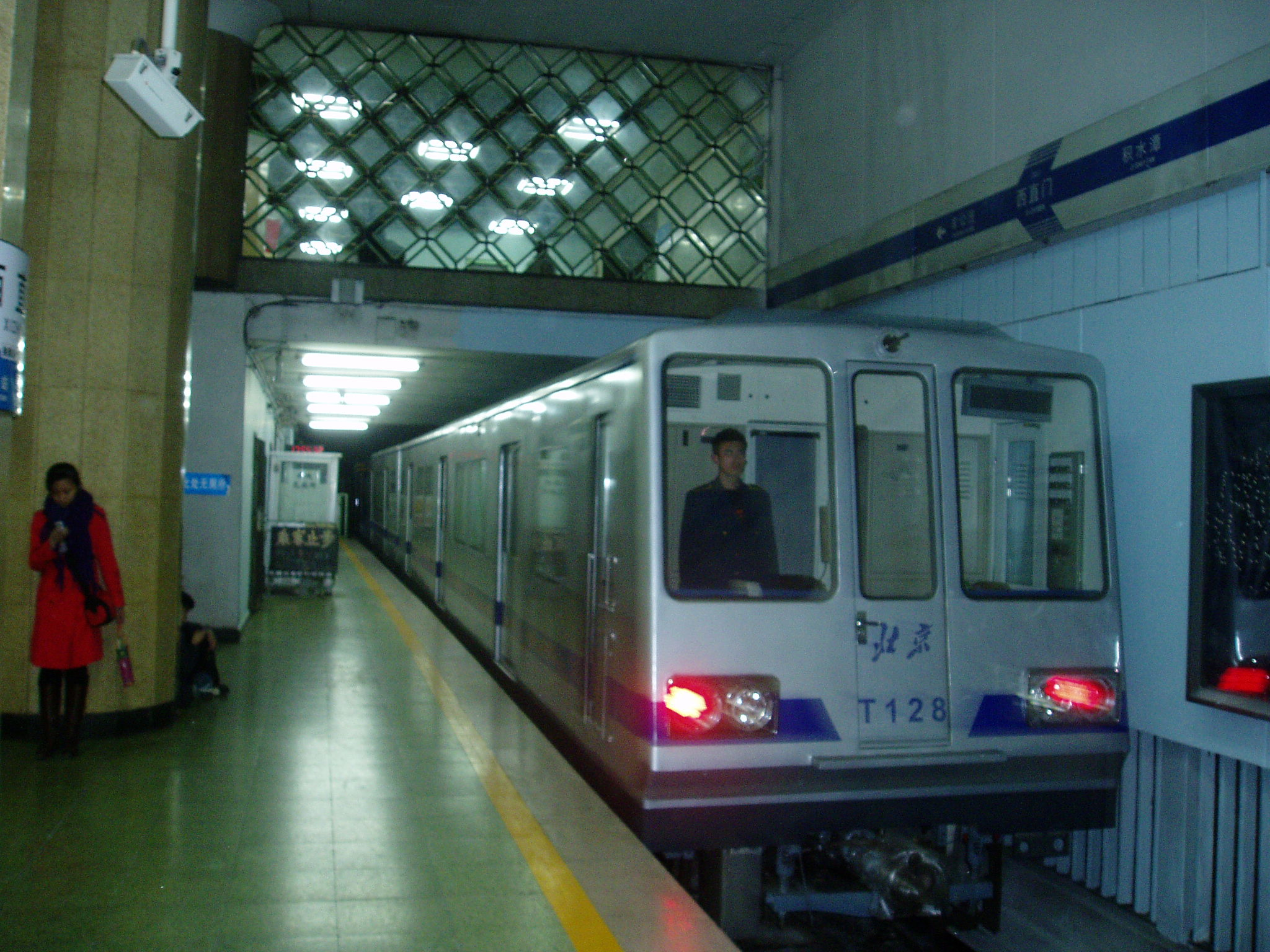 T128 train in Xizhimen Subway station, Line 2 Beijing